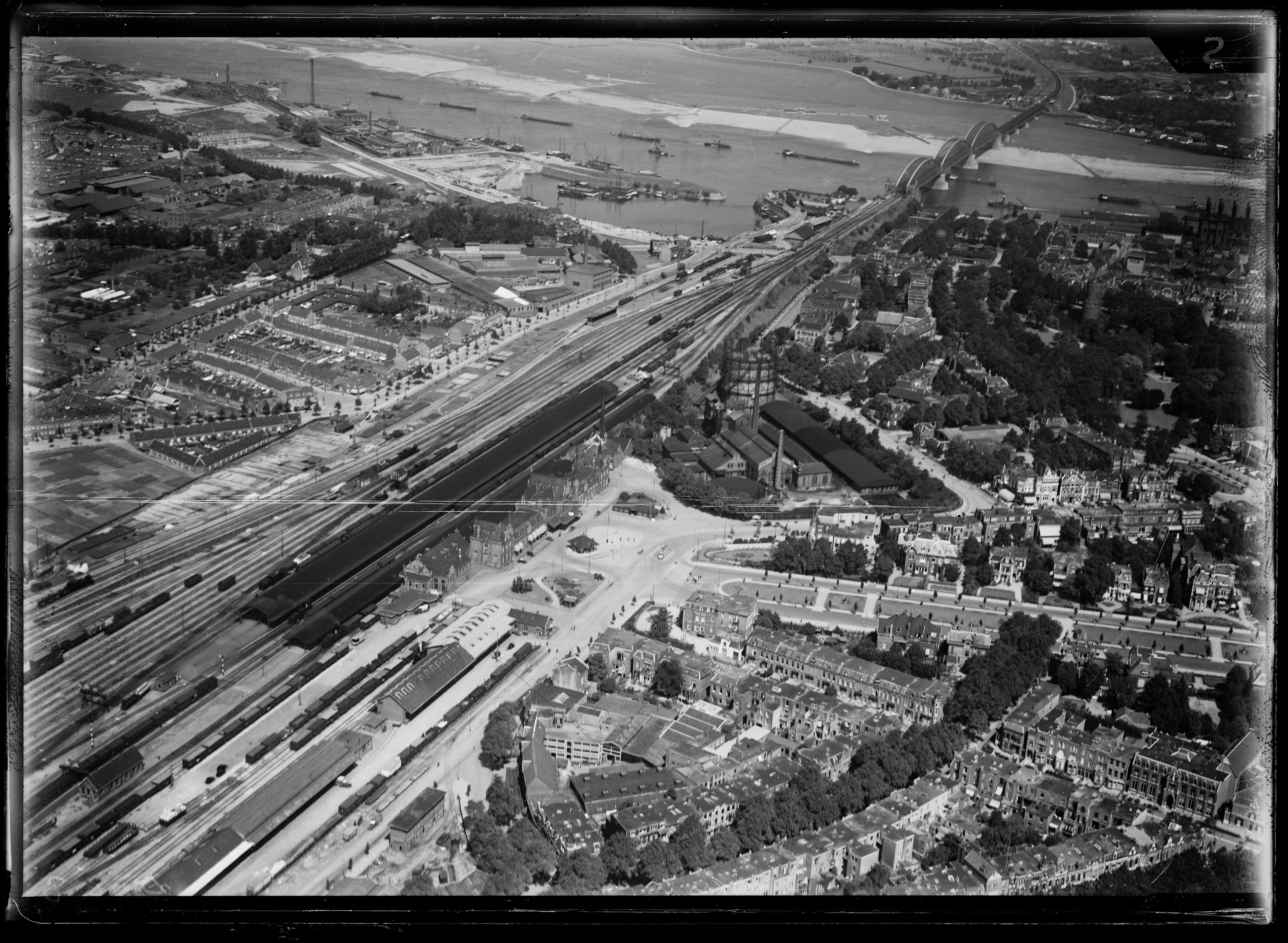 Aerial photograph of Nijmegen, The Netherlands. Railway station Nijmegen.